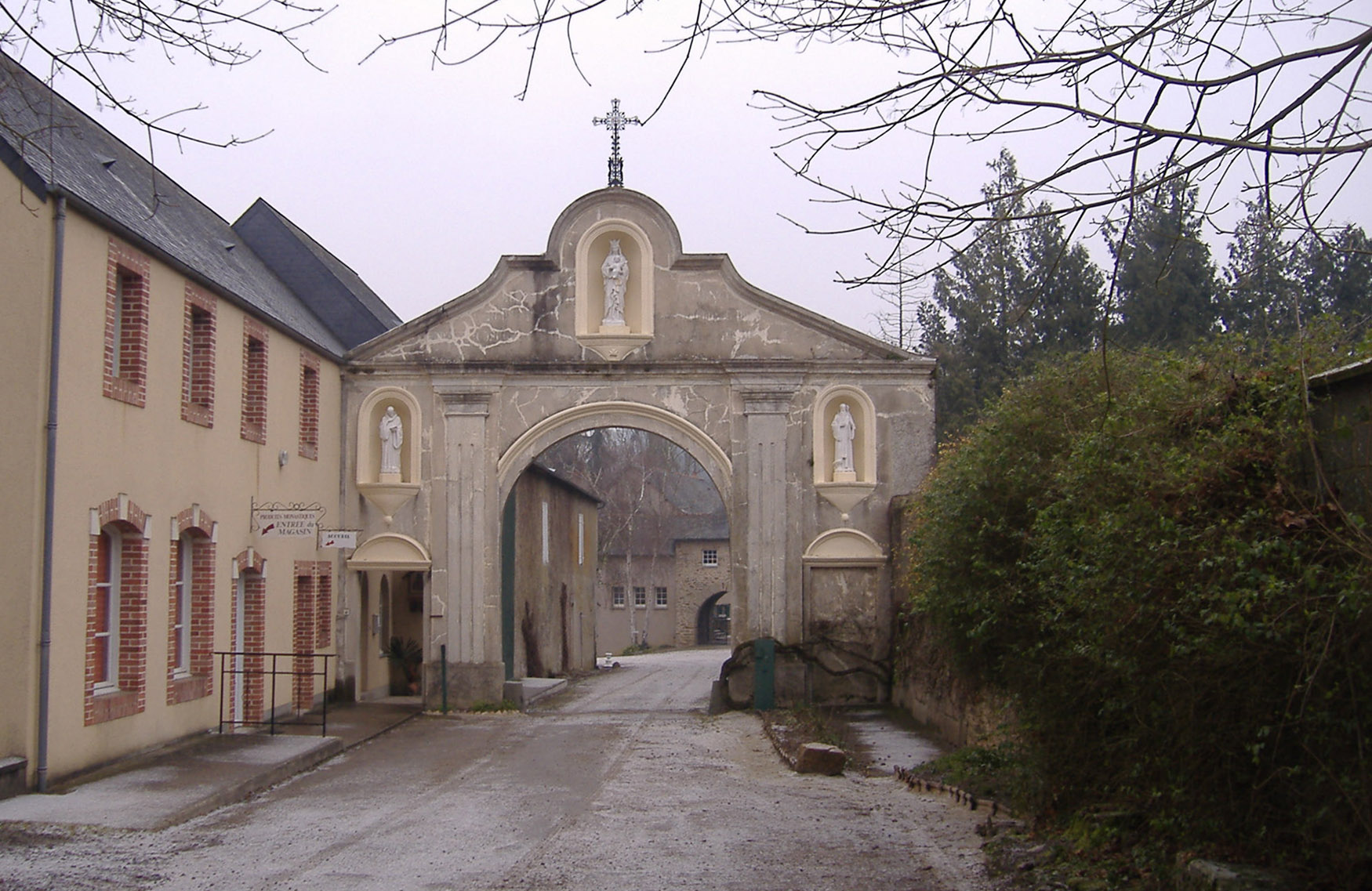 Port du Salut Abbey entrance - France